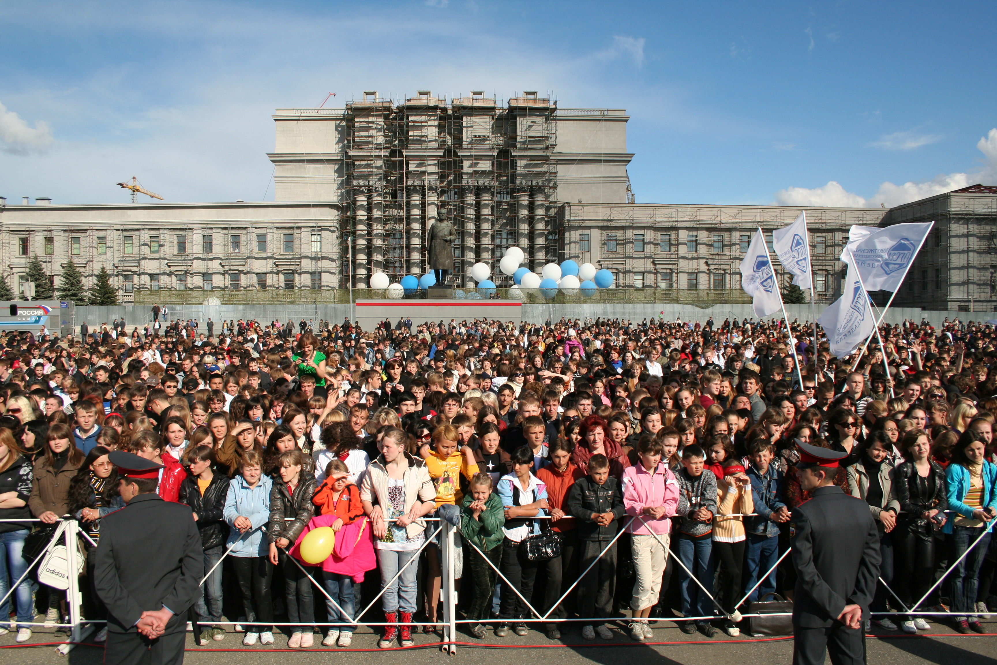 Photo from delphic games 2009 in samara